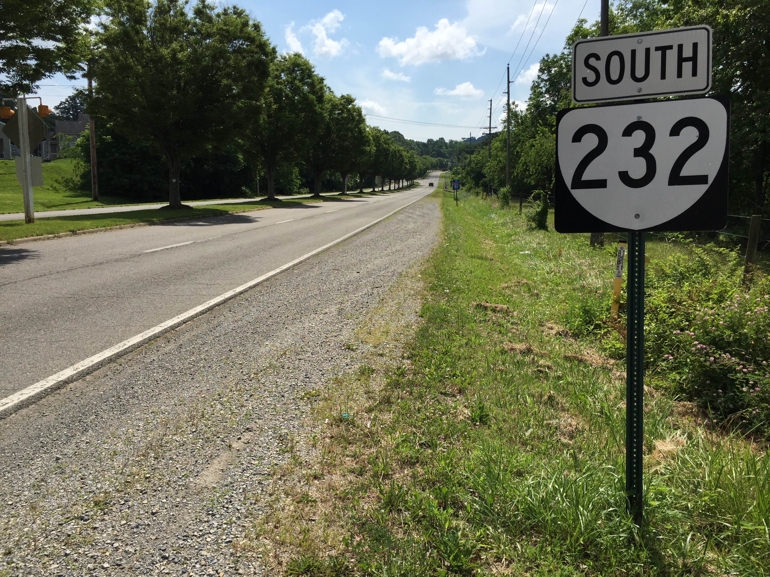 View south along Virginia State Route 232 (Main Street) between Highland Avenue and Midkiff Lane in Radford, Virginia